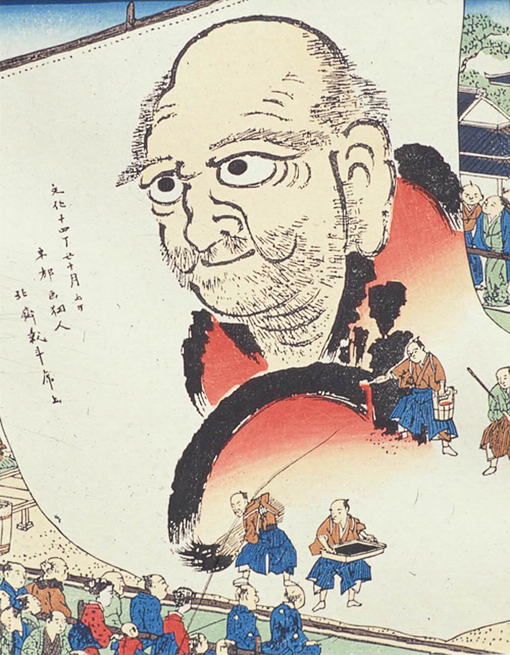 Hokusai painting the Great Daruma at Honganji Nagoya Betsuin (Nishi-Honganji) in 1817.